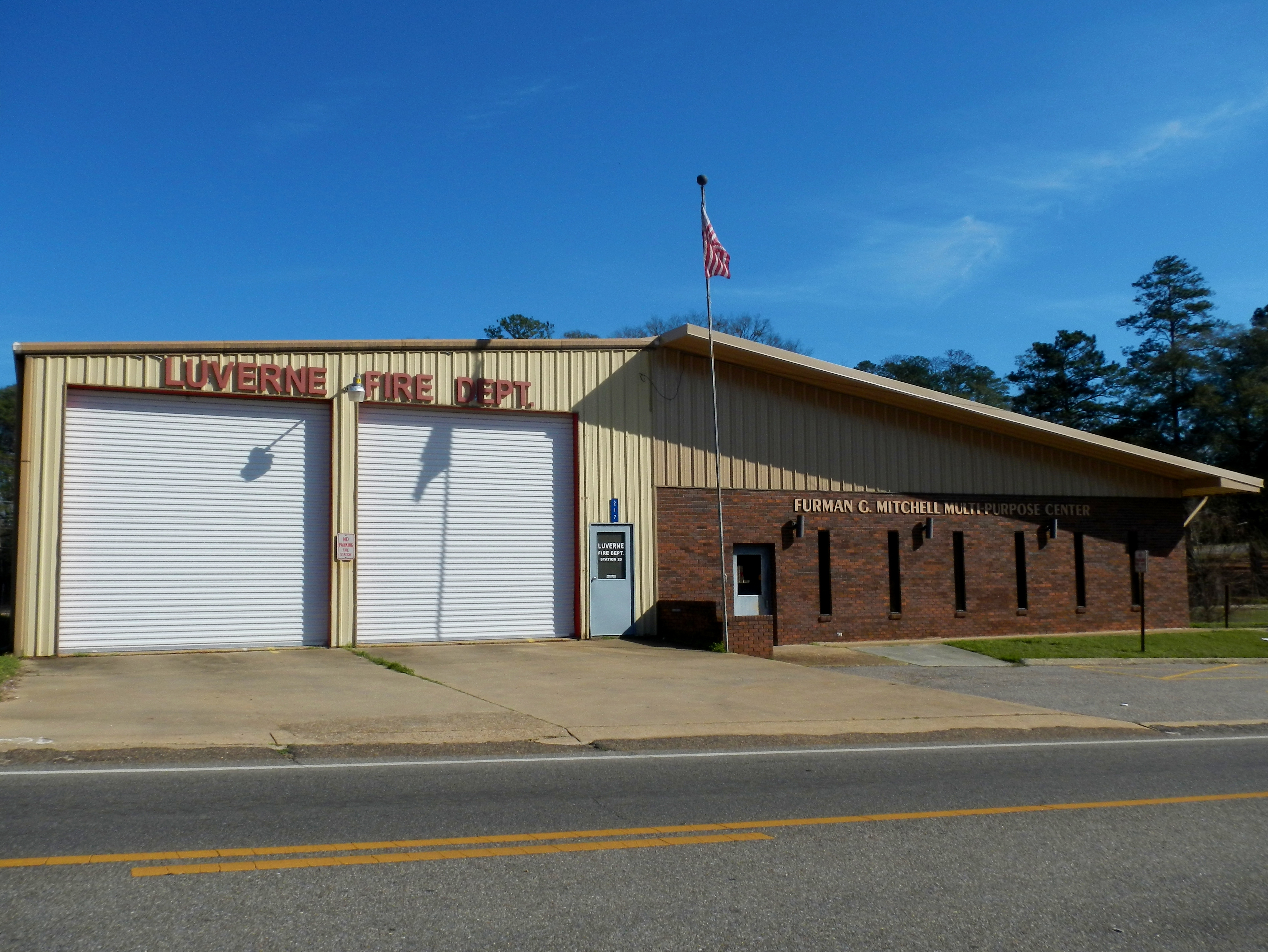 This is a photograph of the Luverne Fire Department in Luverne, Alabama.